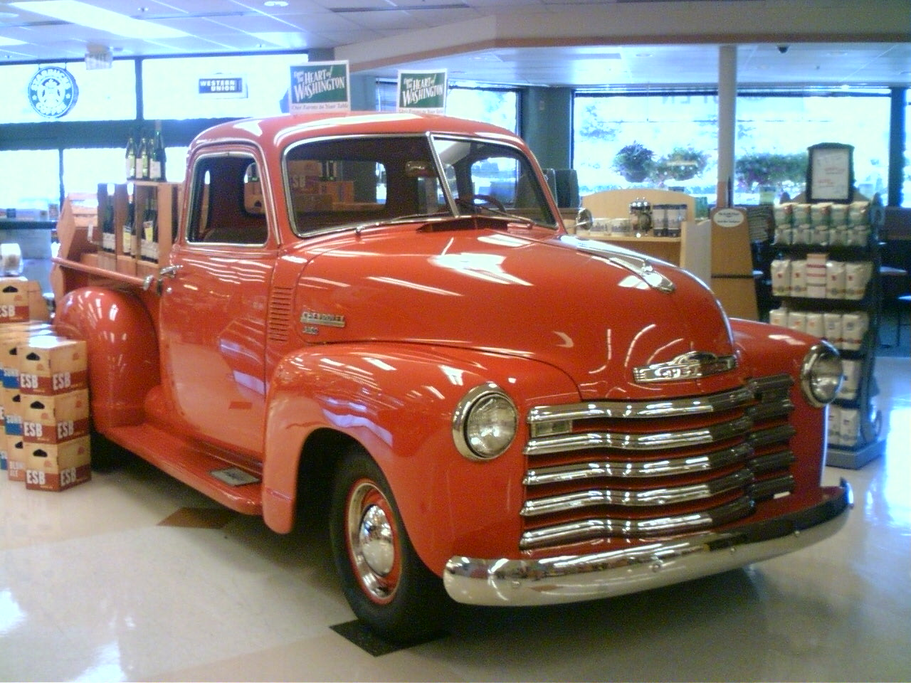 Chevrolet Thriftmaster 194X pickup truck at QFC in Kirkland WA